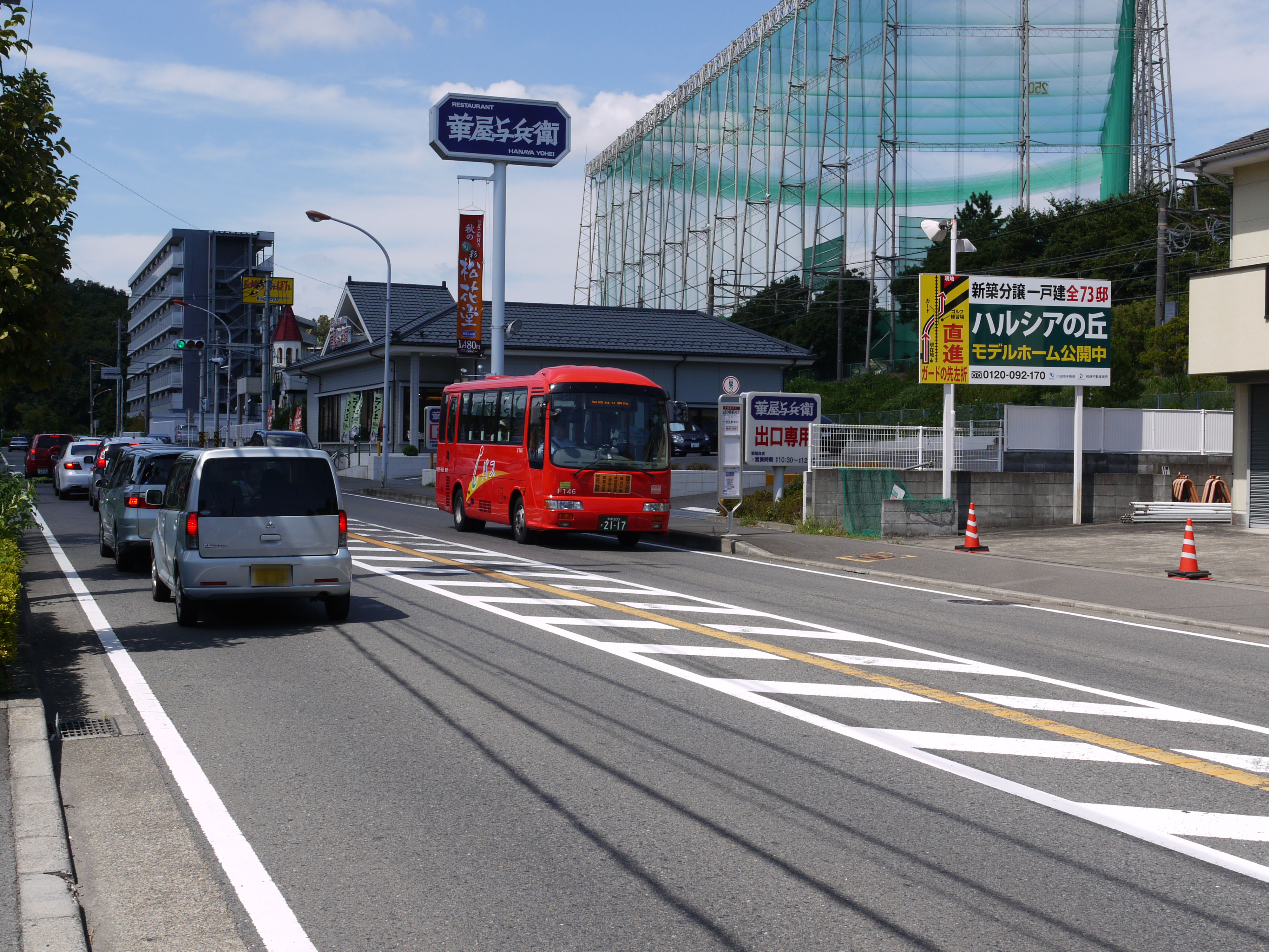 An i bus passing Haruhino station entrance bus stop